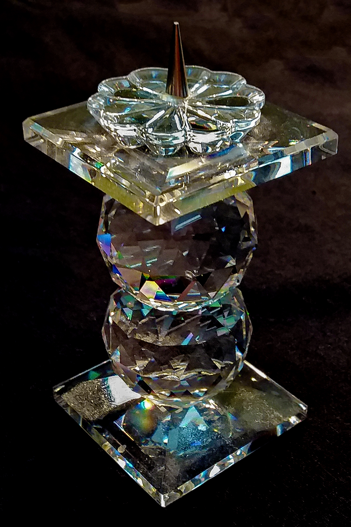 Candle holder made of crystal glass. Swarovski company, Austria The candle holder, belonging to myself, is permanently located on my windowsill in Sand am Main, Marienstraße, Germany. It is permanently visible from a public way (Marienstraße). The picture is cropped and improved in contrast.